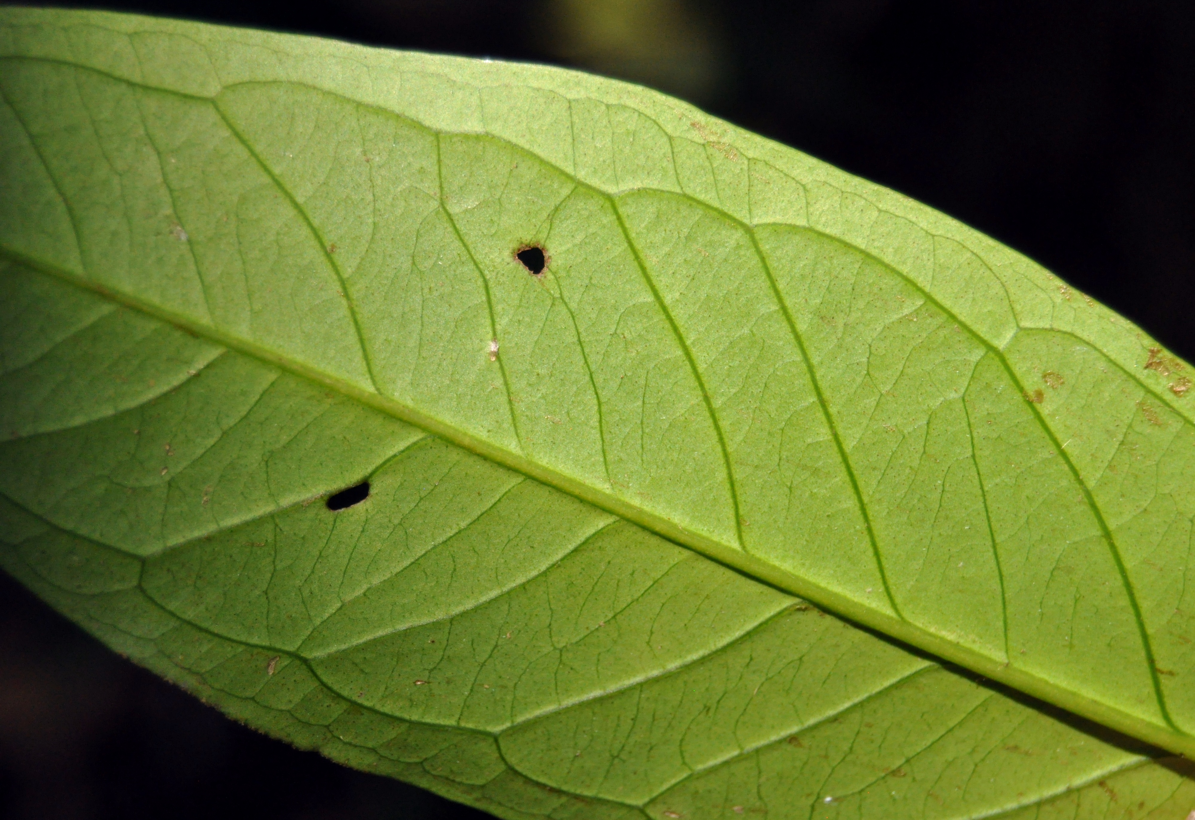 Leaf of Syzygium malaccensis; architecture type: brochidodromus. Bogor, West Java, Indonesia.